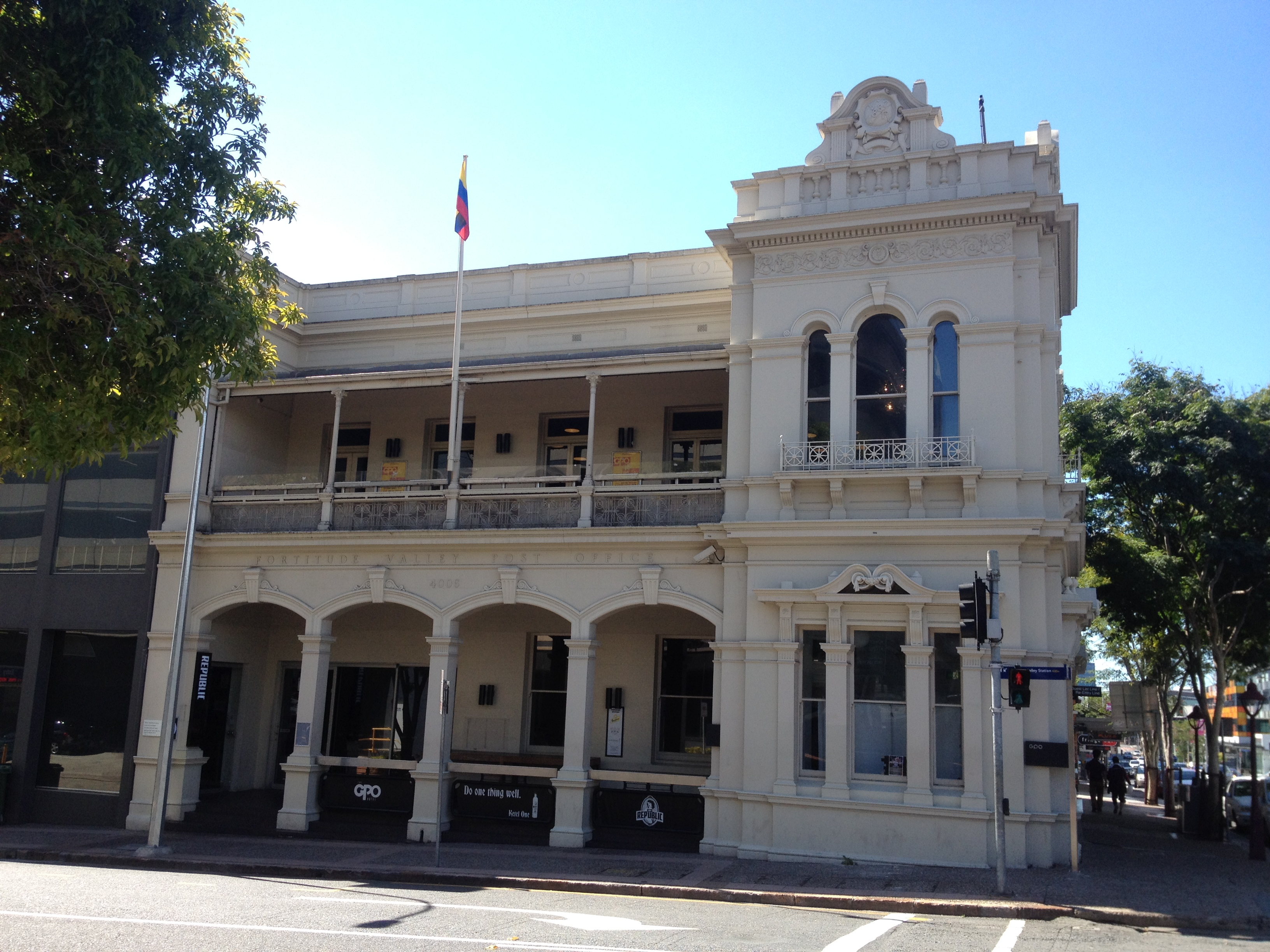 Fortitude Valley Post Office is a heritage-listed former post office at 740 Ann Street, Fortitude Valley, City of Brisbane, Queensland, Australia.